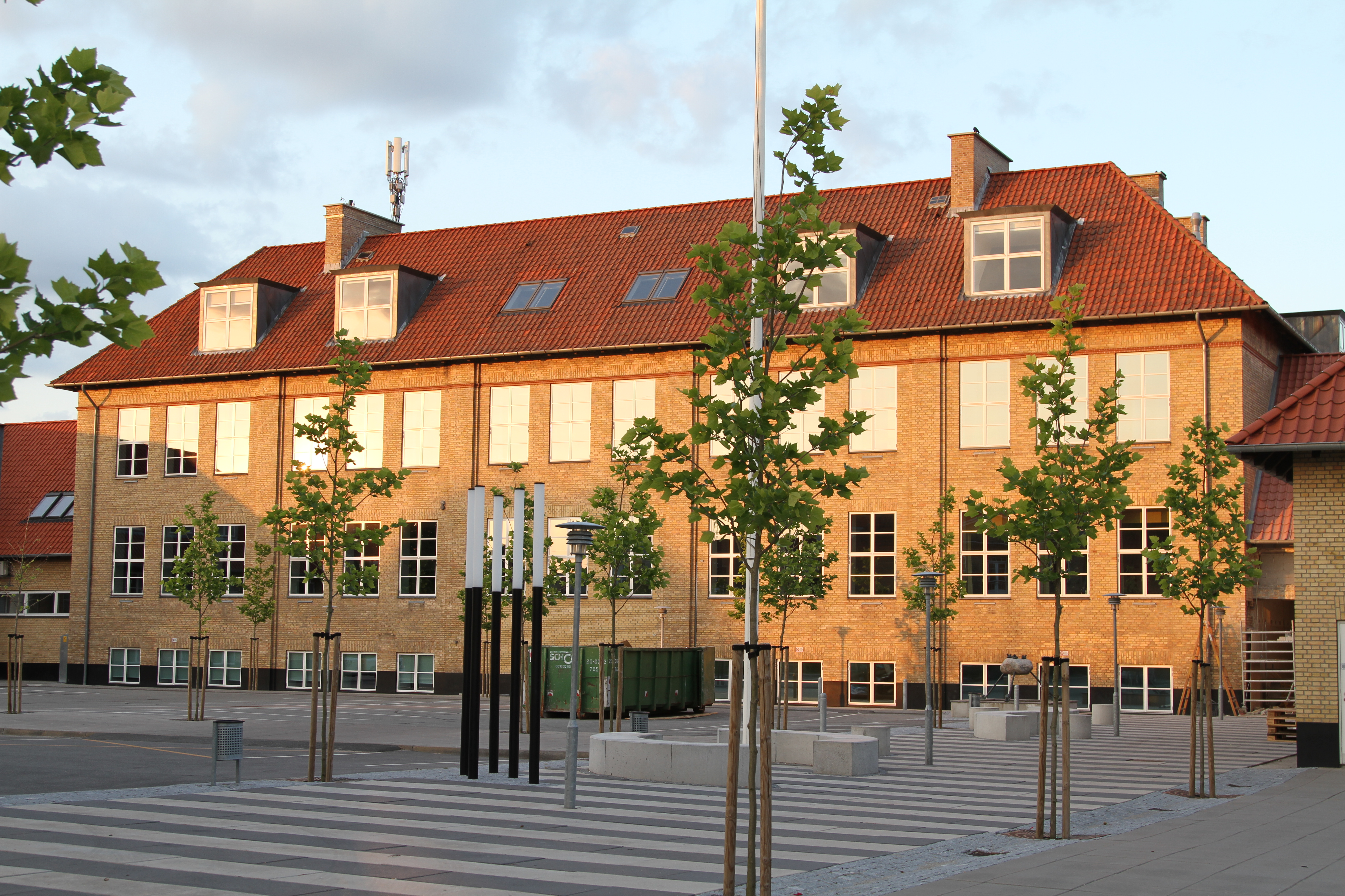 Sct. Knuds Gymnasium in Odense, Denmark